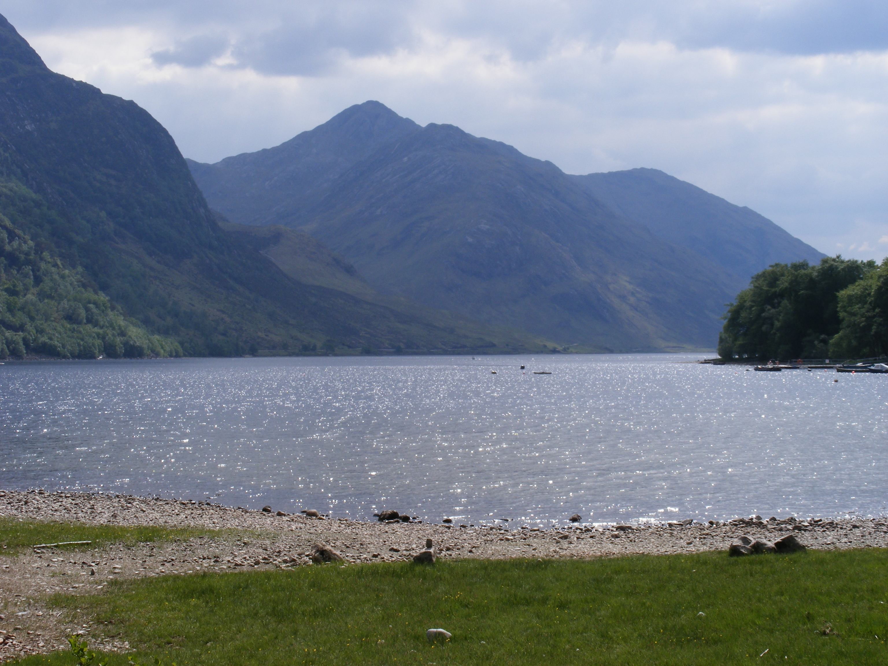 The view from Glenfinnan across Loch Shiel to Sgurr Ghiubhsachain